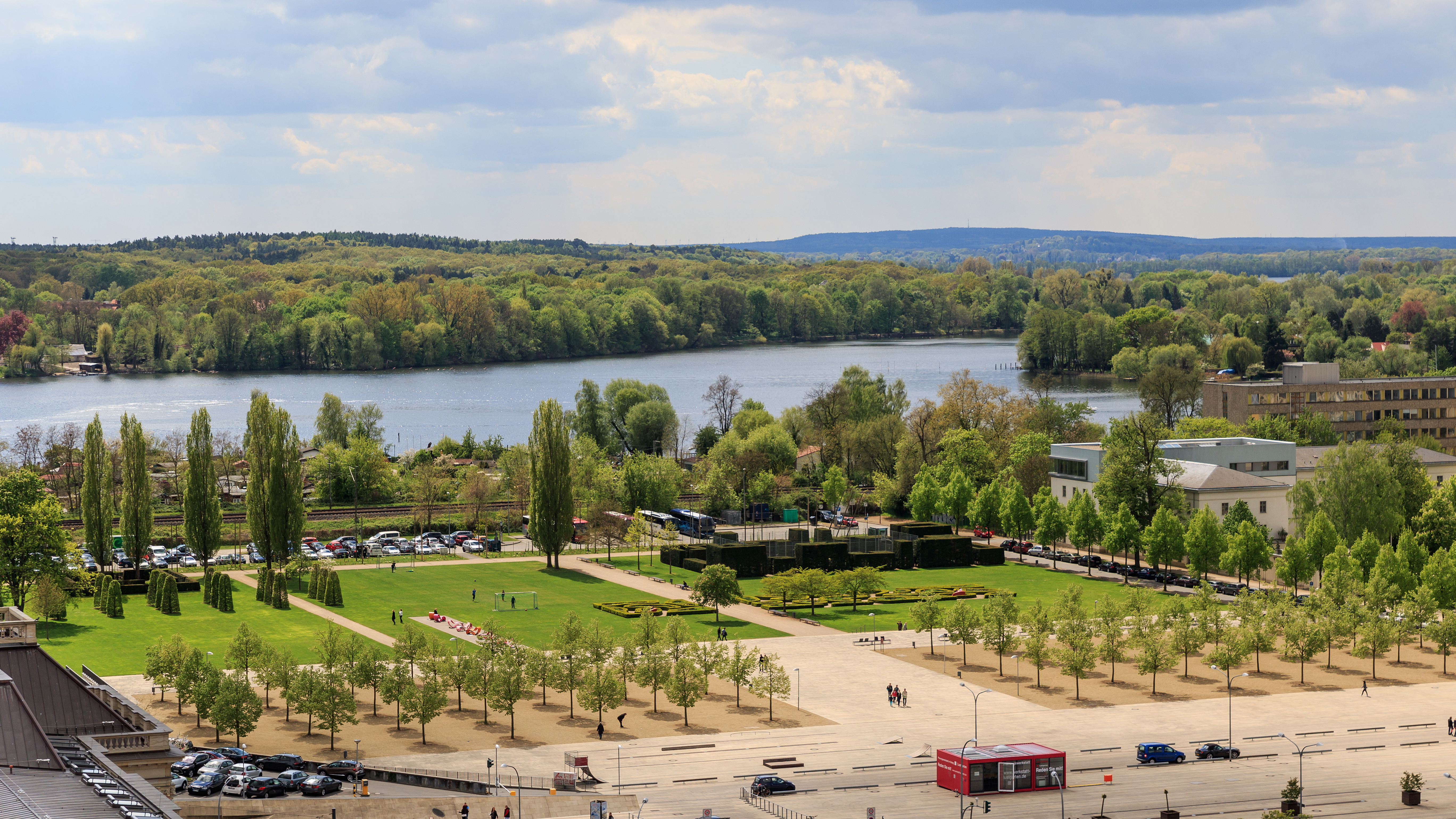 View from St. Nicholas Church in Potsdam